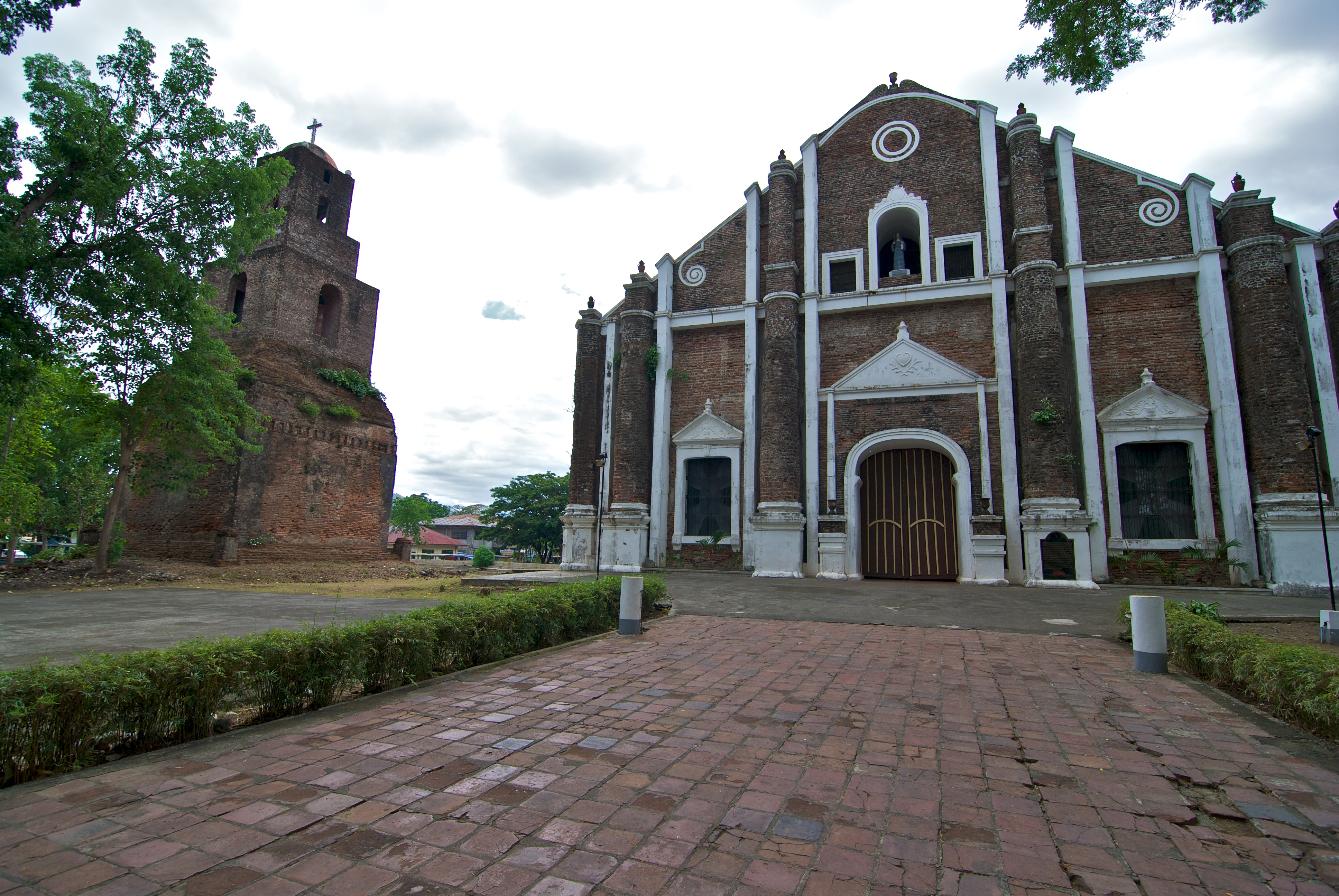 Sarrat Church